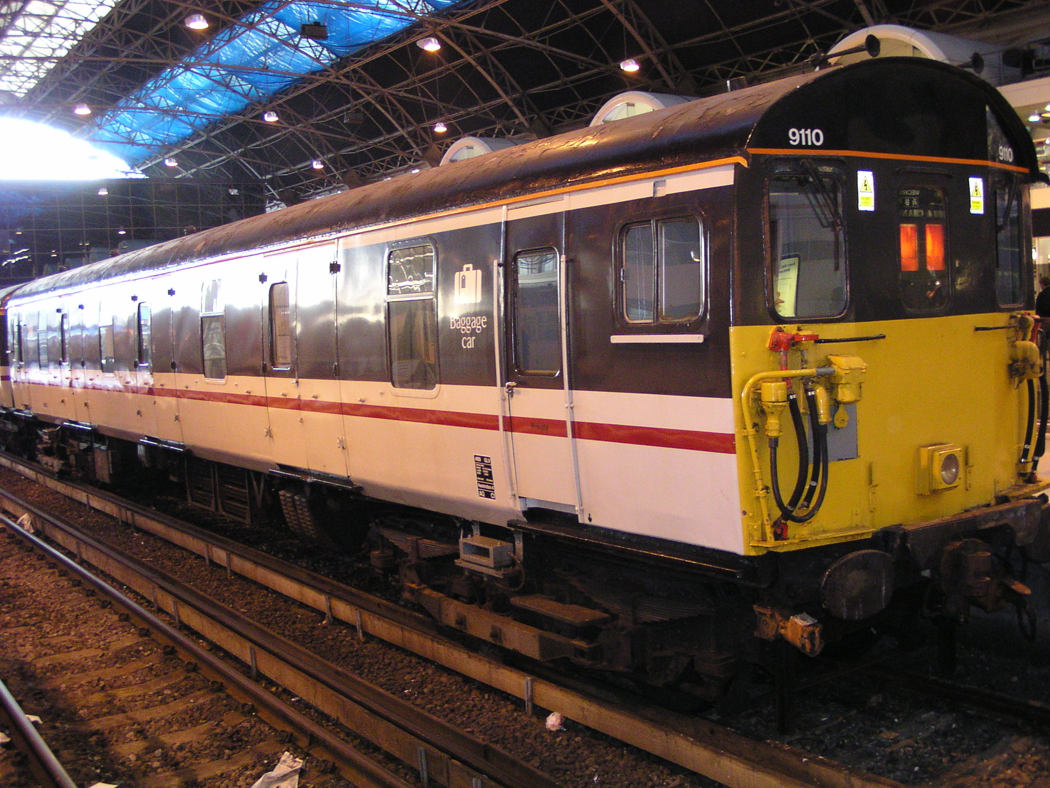 BR Class 489, no. 489110 at London Victoria on 18th March 2003. Image by Phil Scott (Our Phellap)